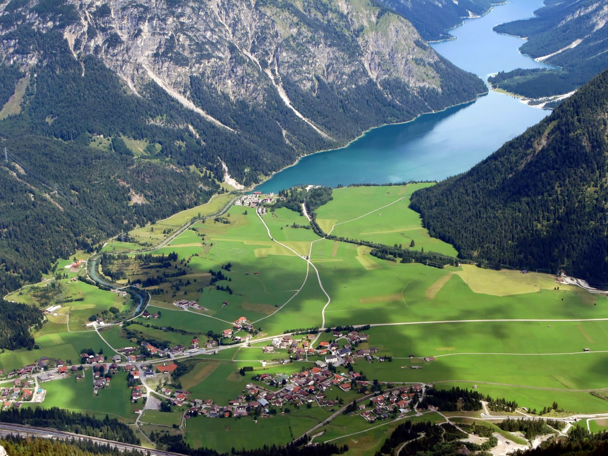 Village Heiterwang, View from South from Mountain Thaneller